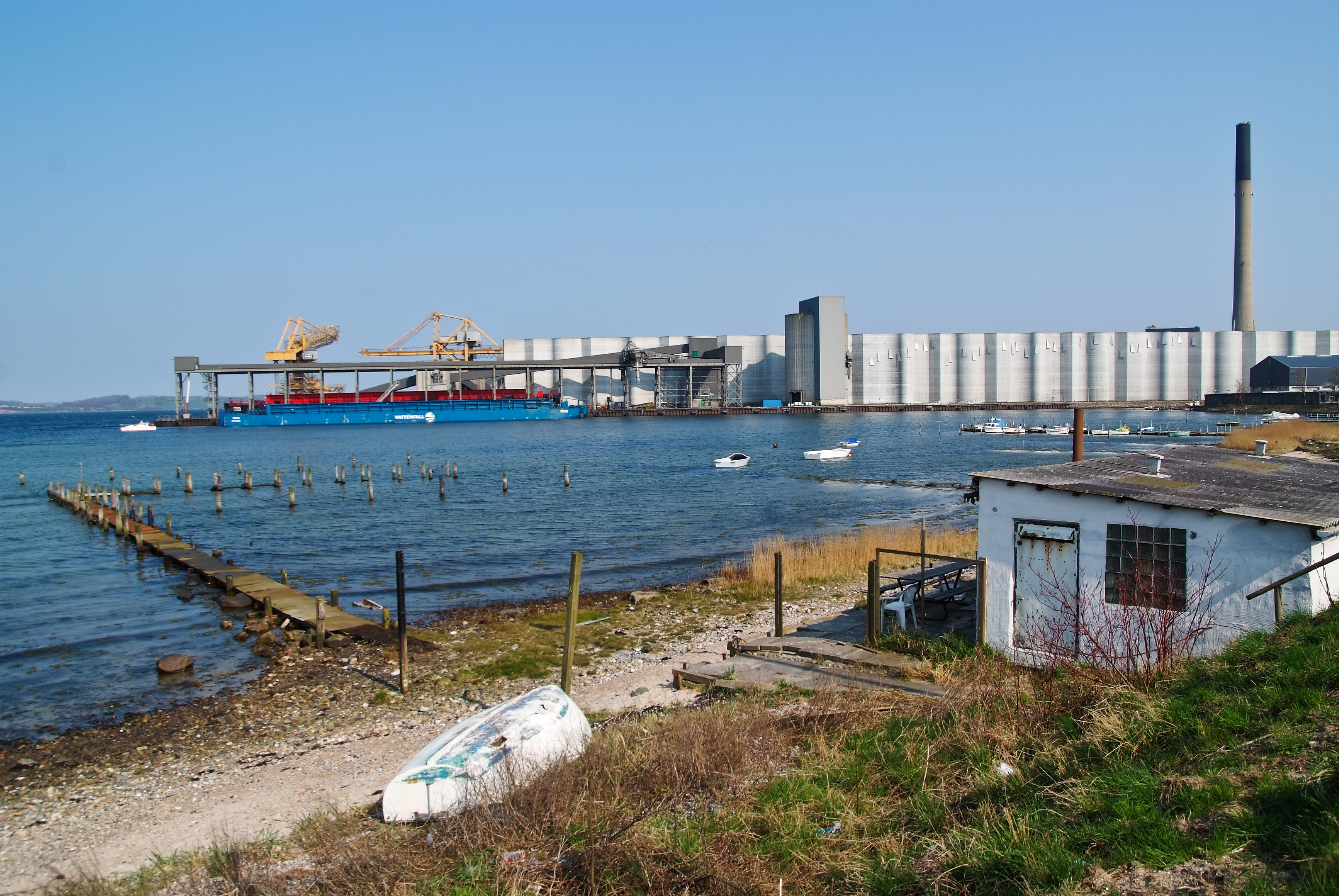 Coal-fired power station of Aabenraa, Denmark